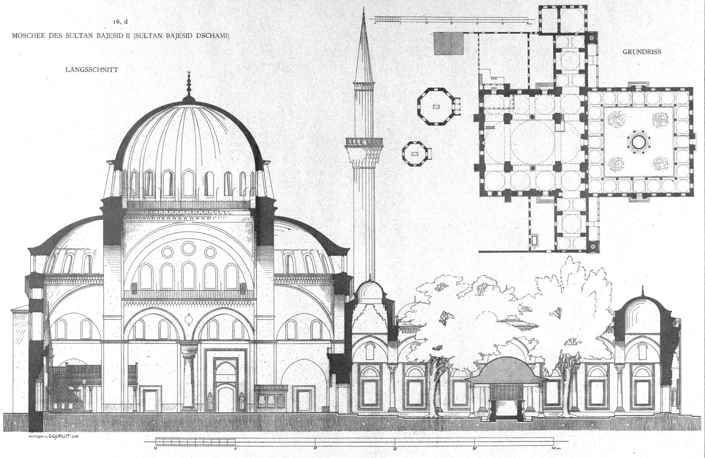 Elevation and plan of the Bayezid II Mosque in Istanbul